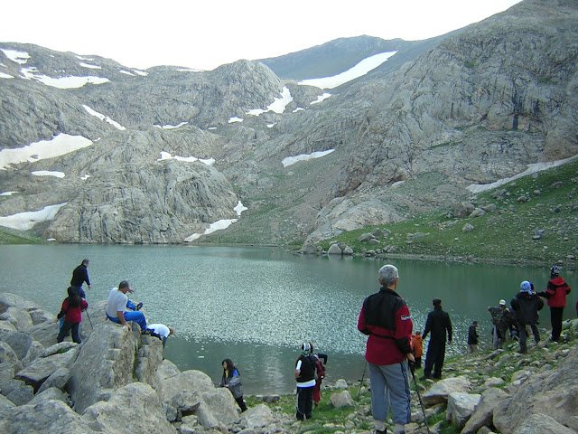 Çiniligöl Bolkar Dağları